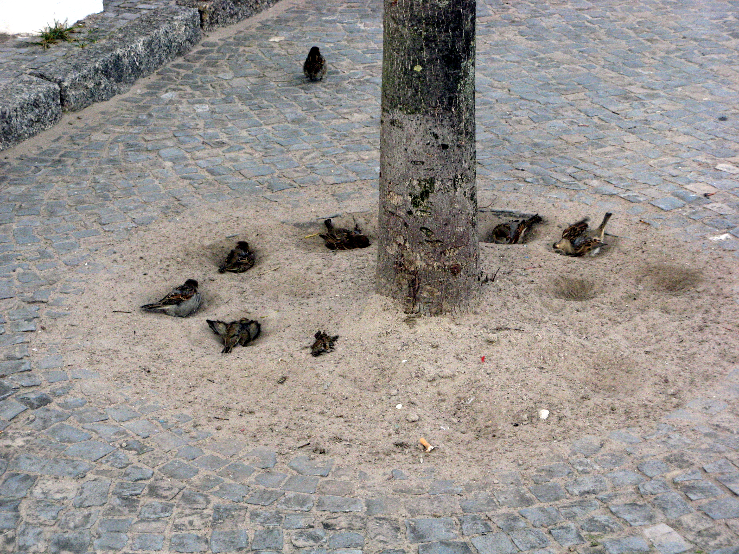 House Sparrows sandbathing